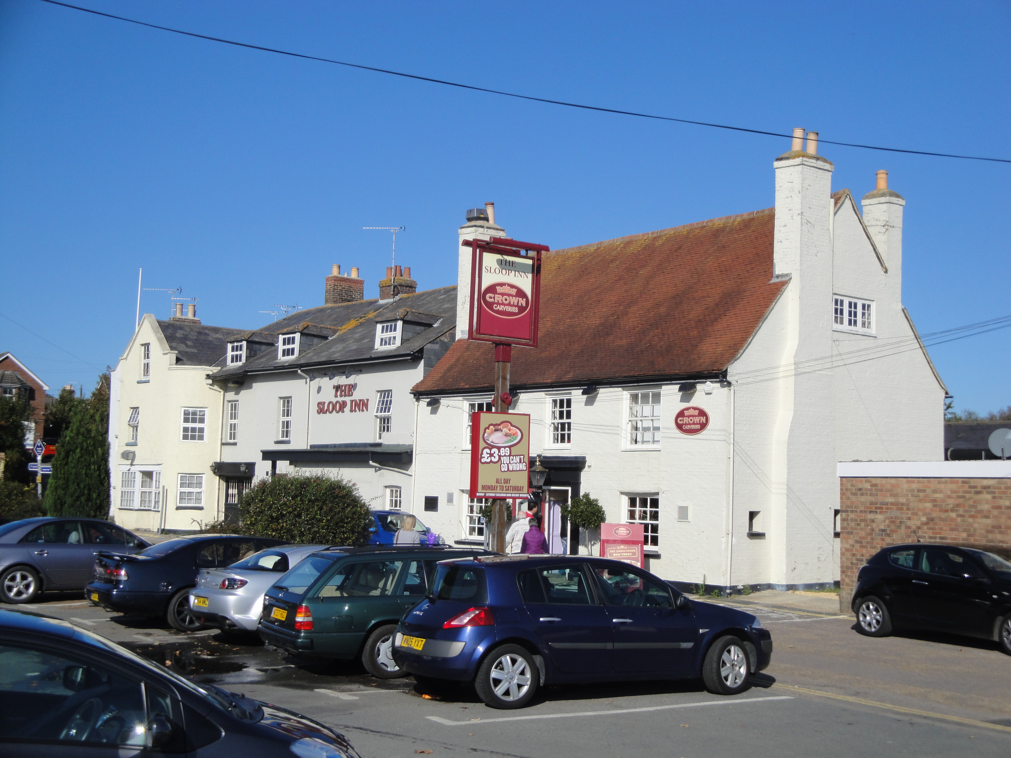 The Sloop Inn, Wootton, Isle of Wight, in October 2011.